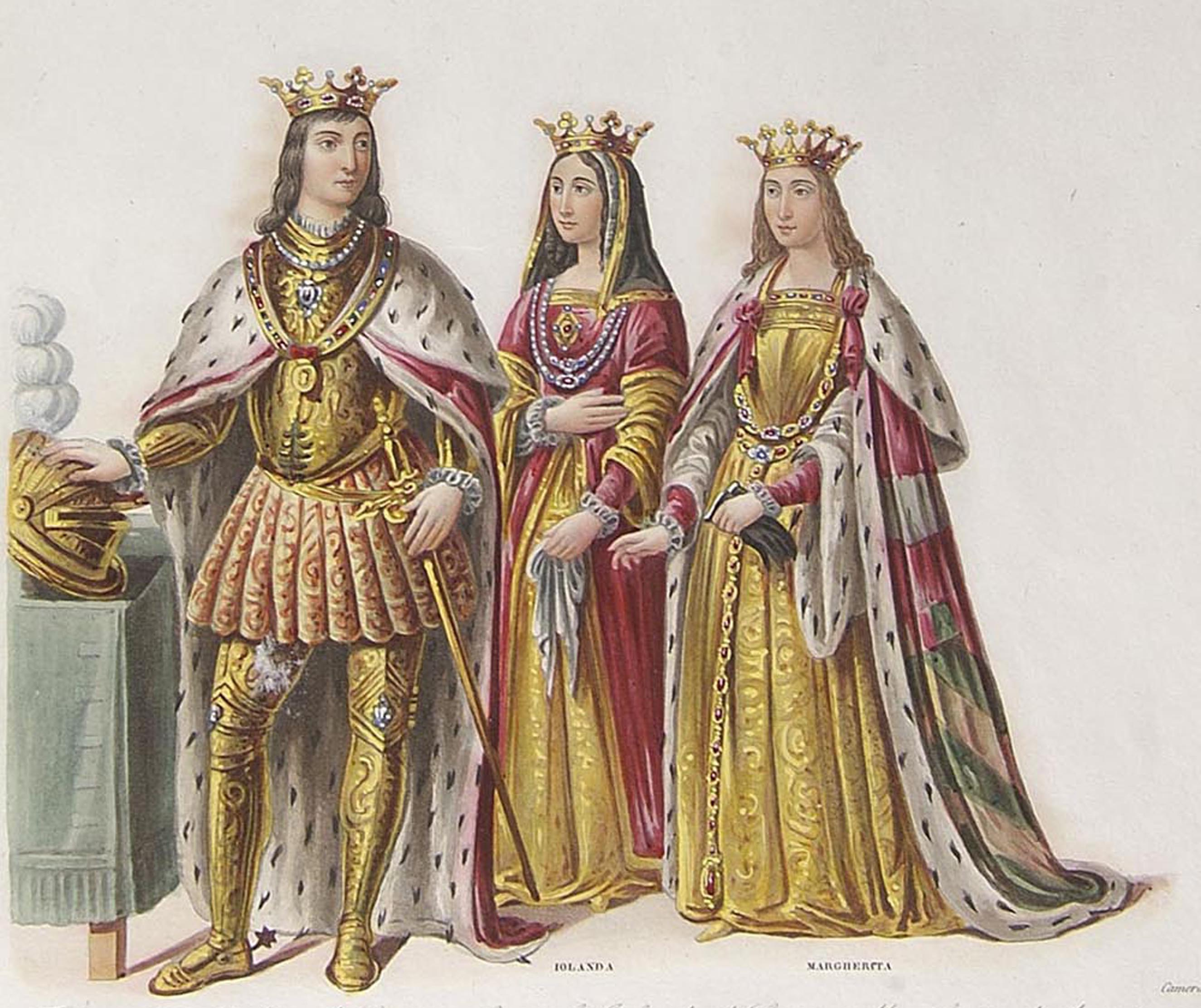 Filiberto II of Savoy and his two wives - Yolande of Savoy and Margarete of Austria